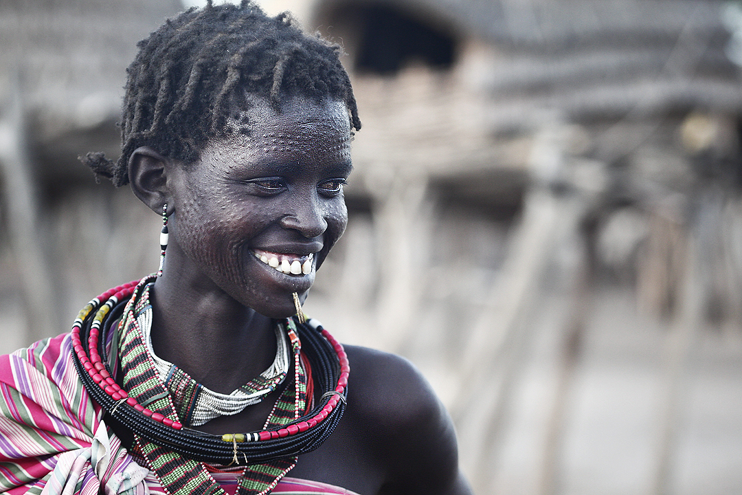 Scarified tribeswoman, South Sudan